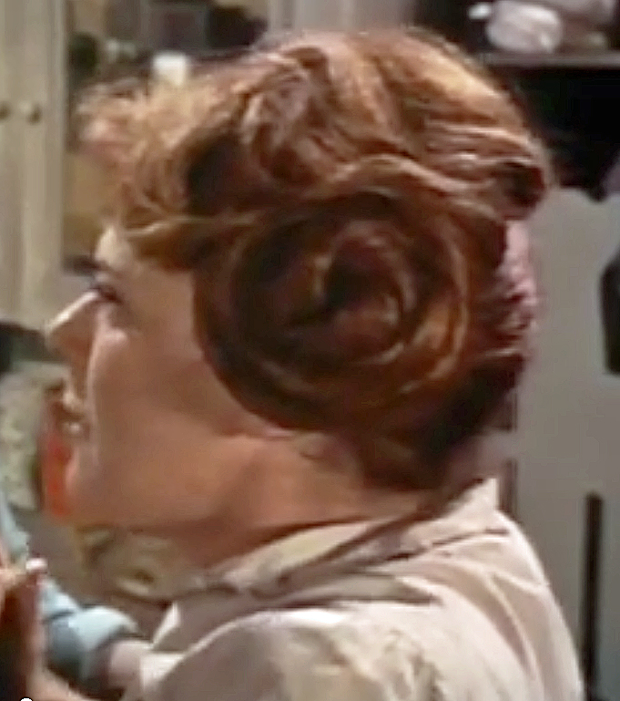 Jacqueline Scott in trailer for "Death of a Gunfighter" (1969)